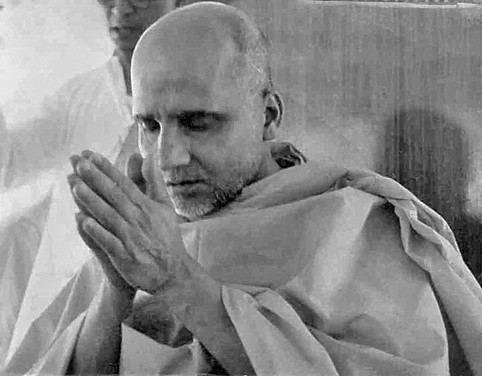 His Holiness Sri Swami Krishnananda